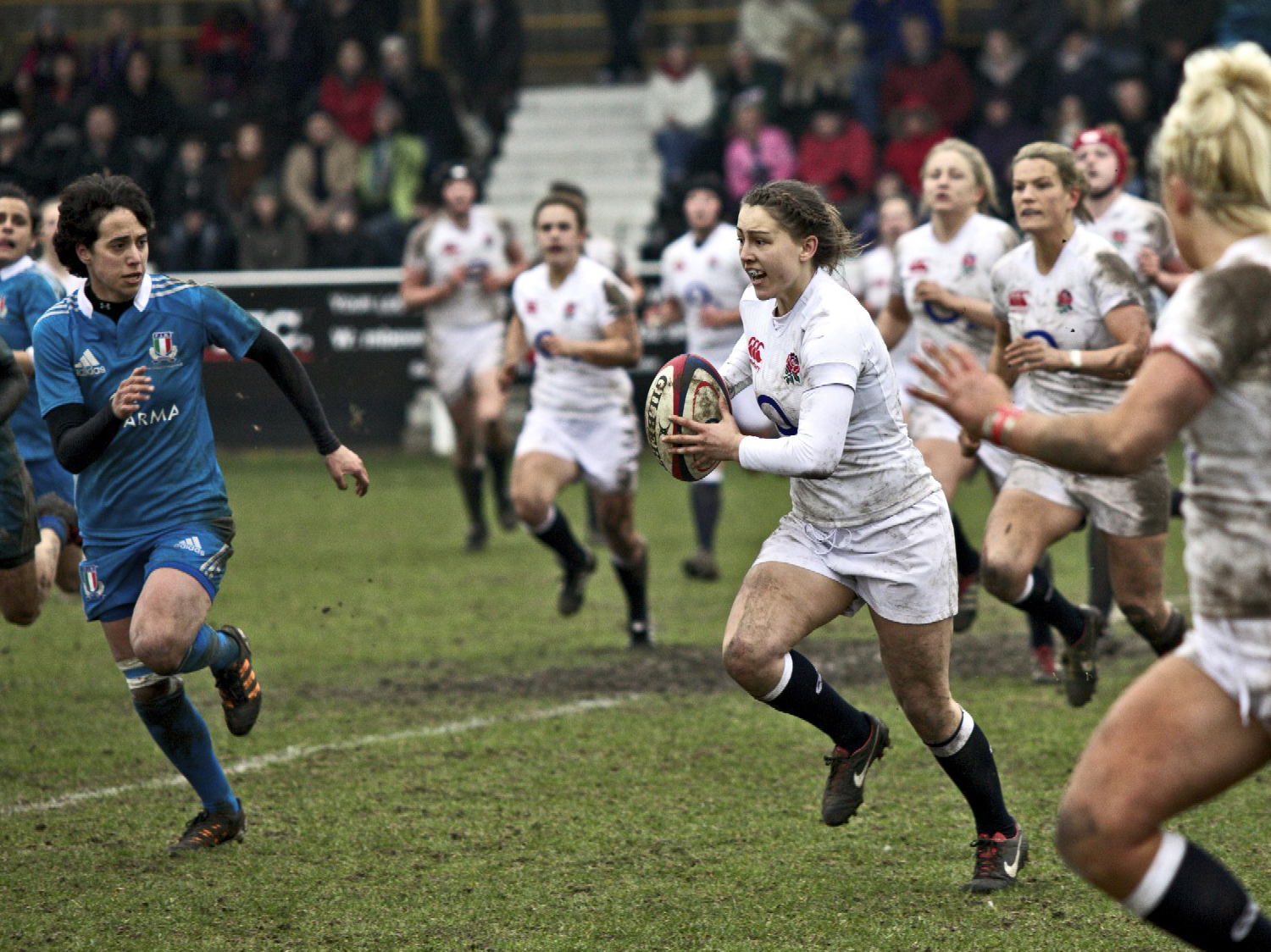 England 34 : 0 Italy